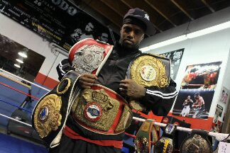 Tiger Smalls with his belts